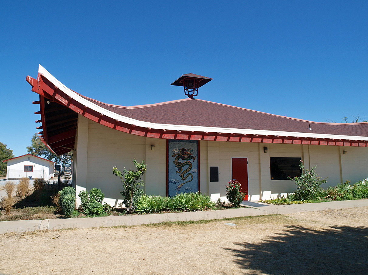 The Chinese Camp, California Elementary School architecture echos the Gold Rush days when the area was populated primarily by immigrant miners from China.